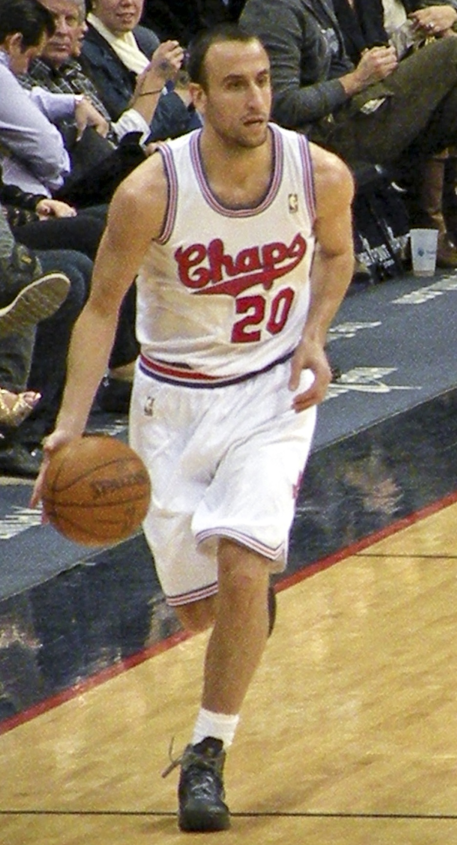 New Jersey Nets vs. San Antonio Spurs 2.11.12; Hardwood Classic Night: Spurs wearing ‘70-’71 ABA Texas Chaparrals Uniforms; Prudential Center, Newark, NJ